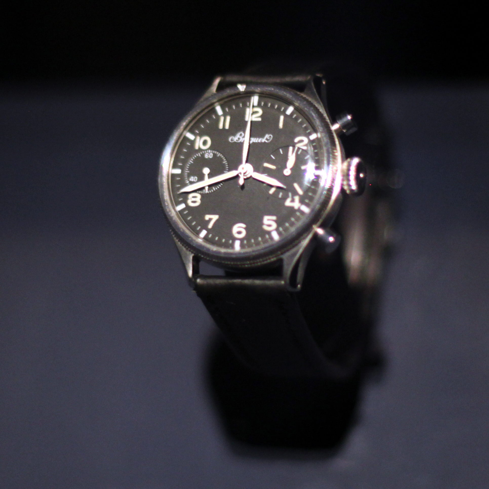 Breguet serial number 3972 and N°249/500